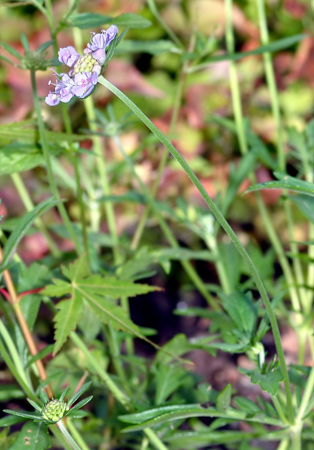 This image shows a plant of the species Scabiosa japonica.